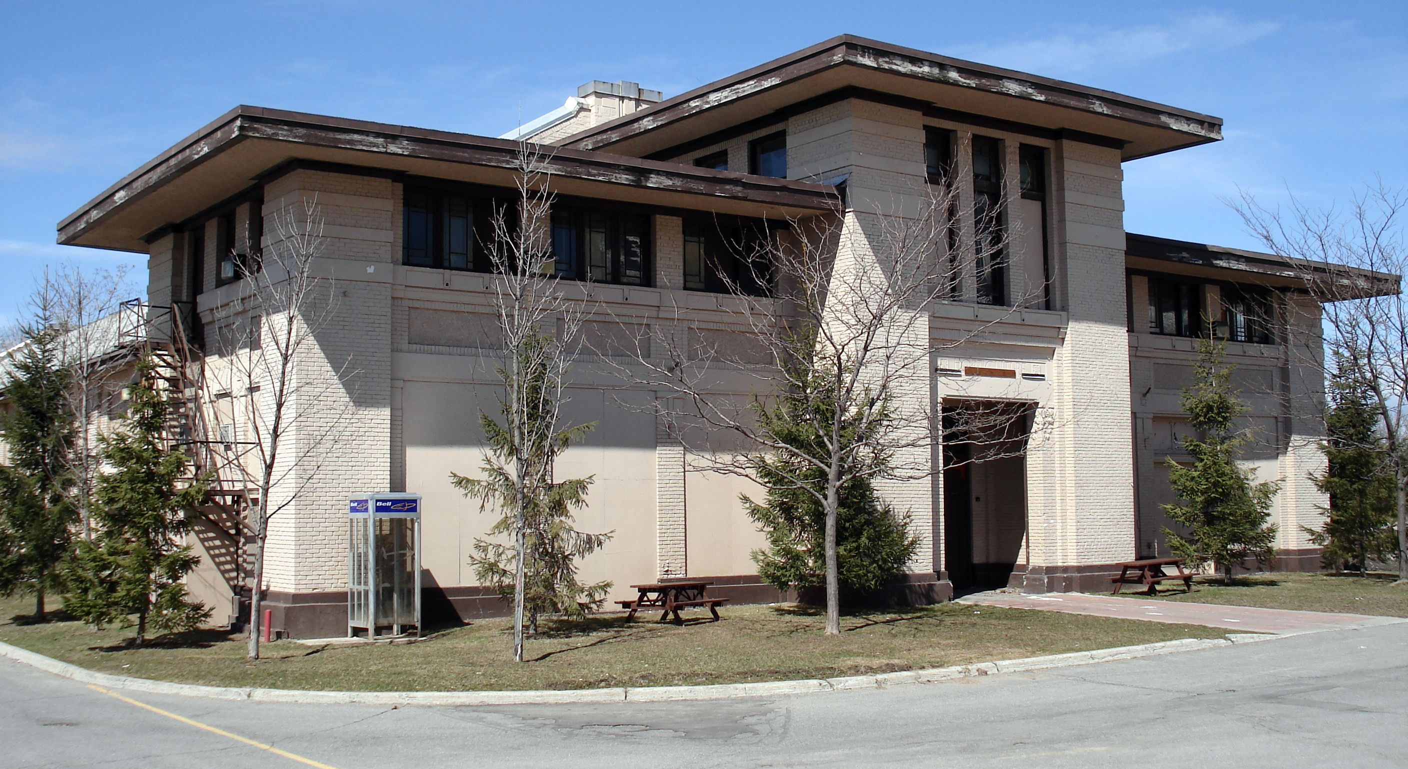 The horticulture building at Lansdowne Park, Ottawa, Canada. Designed by Francis Conroy Sullivan.